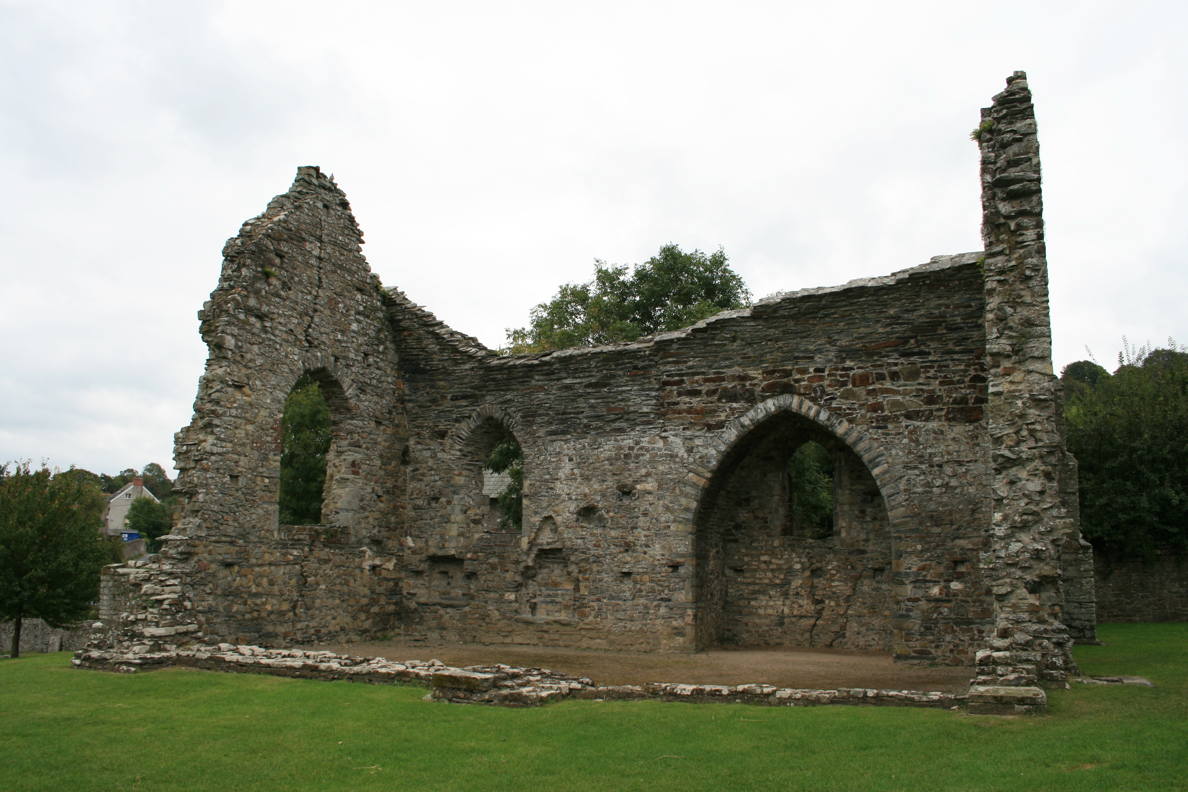 Remains of St Dogmaels Abbey